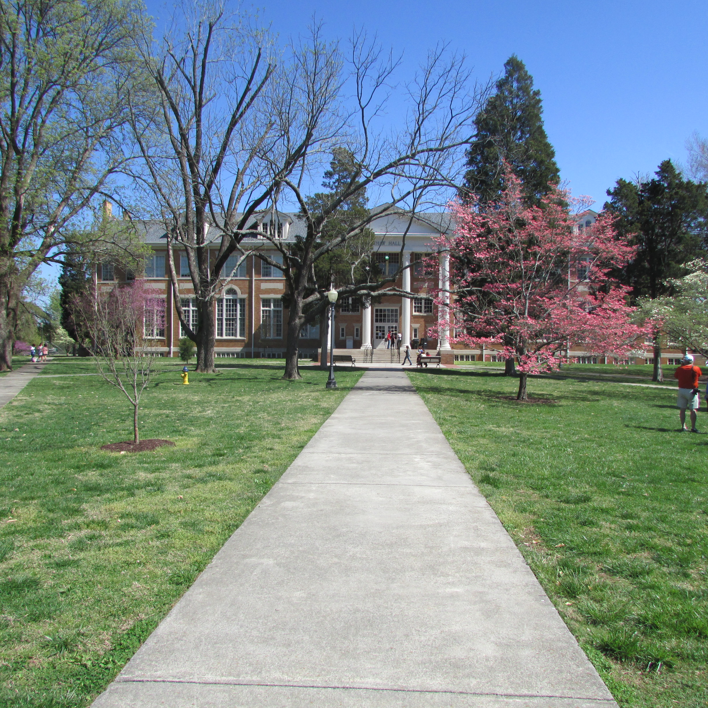 A picture of Thaw Hall, the library and home to the Academic Support Center and Social Science majors.